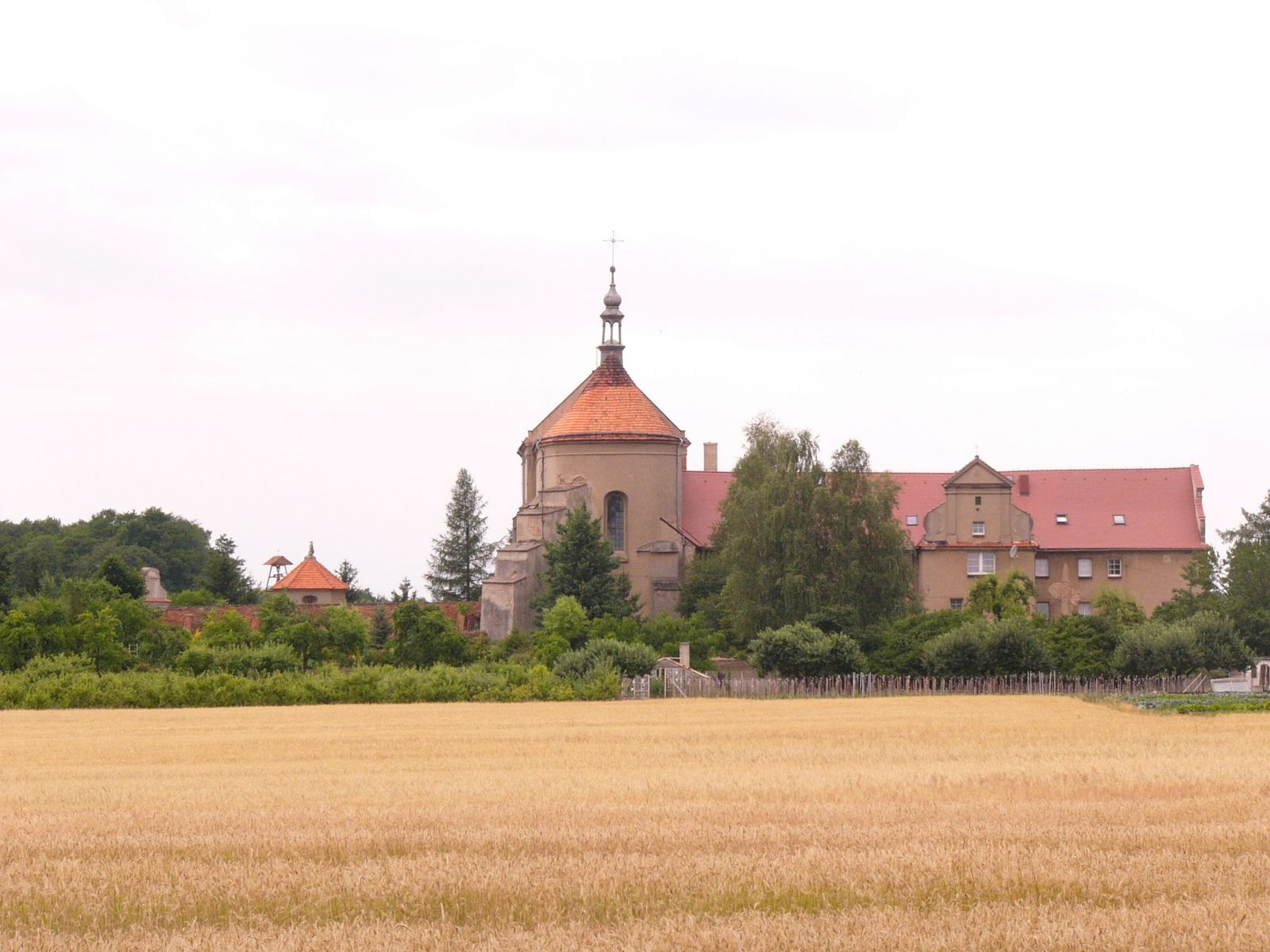 Sisters of the Holy Family of Nazareth monastery in Ostrzeszów